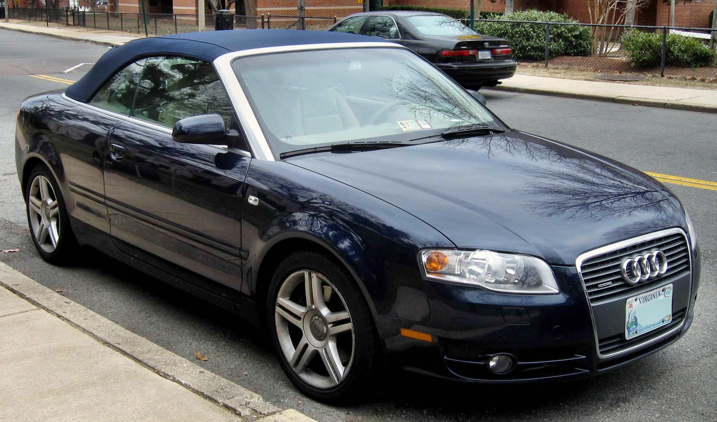 2007-2009 Audi A4 photographed in Alexandria, Virginia, USA.